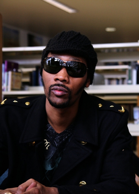 RZA at the Hip Hop Chess Federation Tournament at the O'Connel High School in San Francisco, 2009